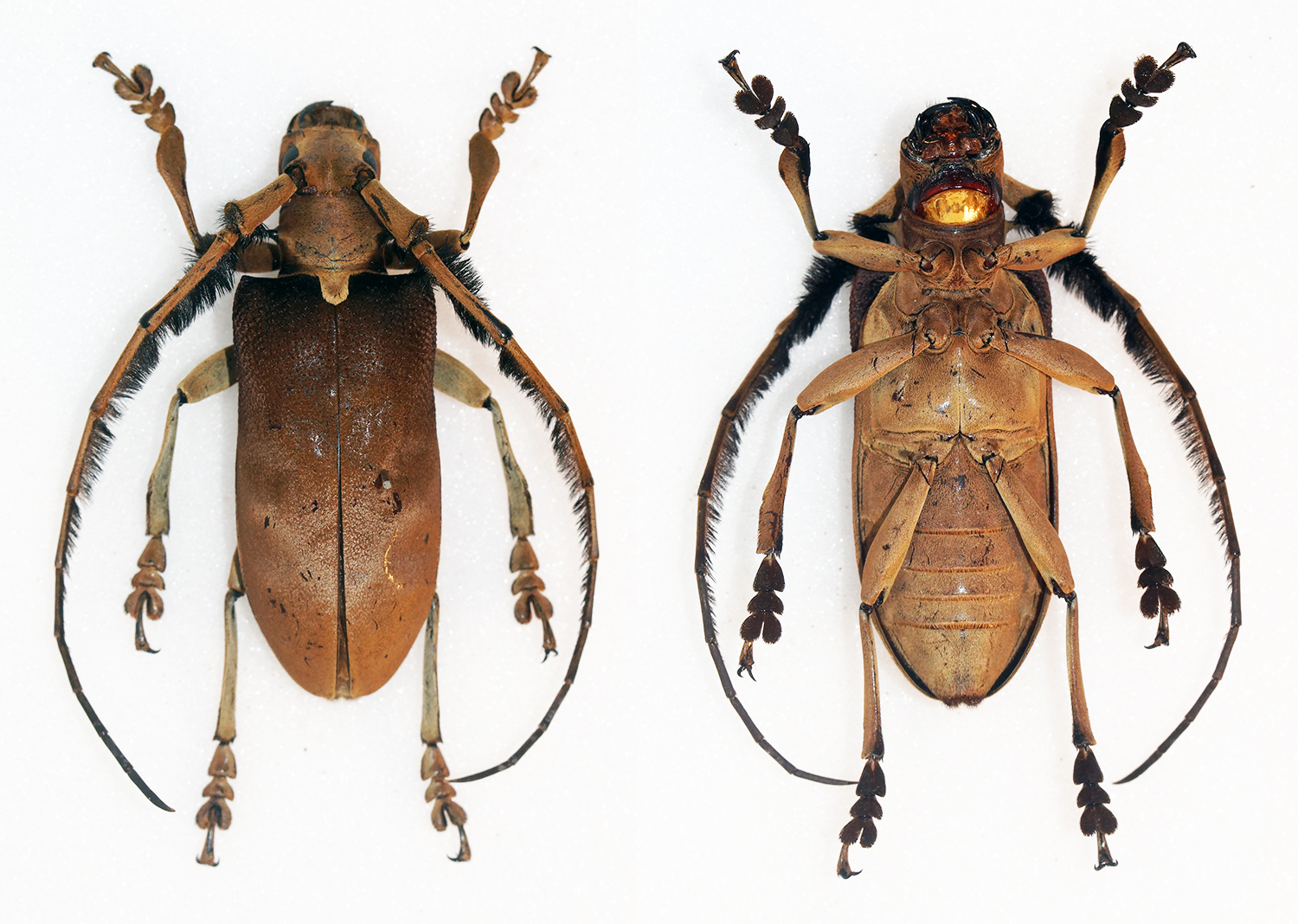 White,1846 Sex: Female Data: Cameron Highlands - Malaysia Size: 45mm